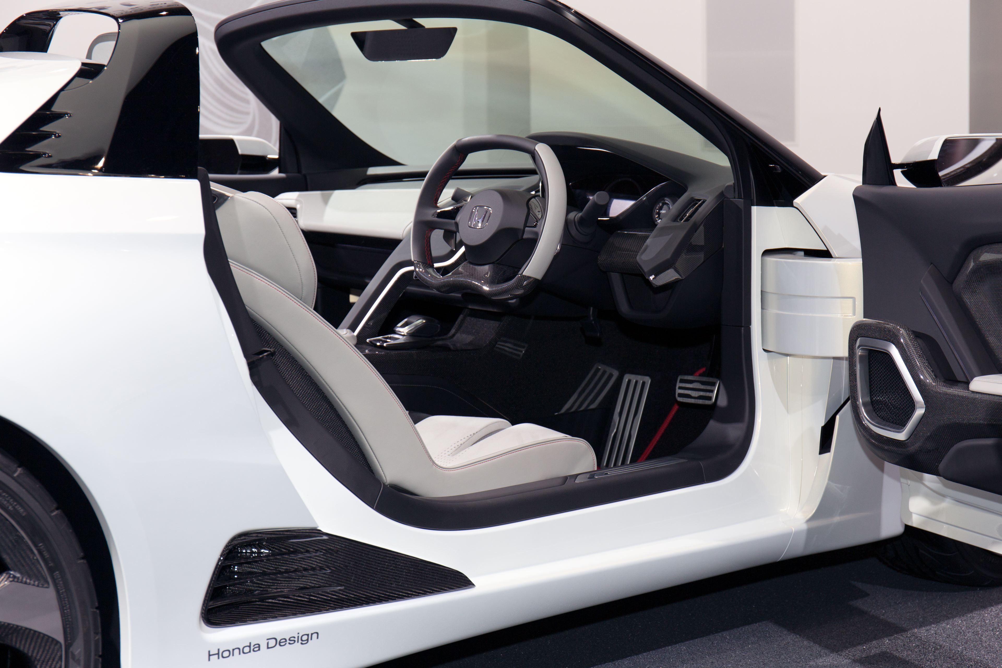 Tokyo Motor Show 2013: Honda S660 Concept